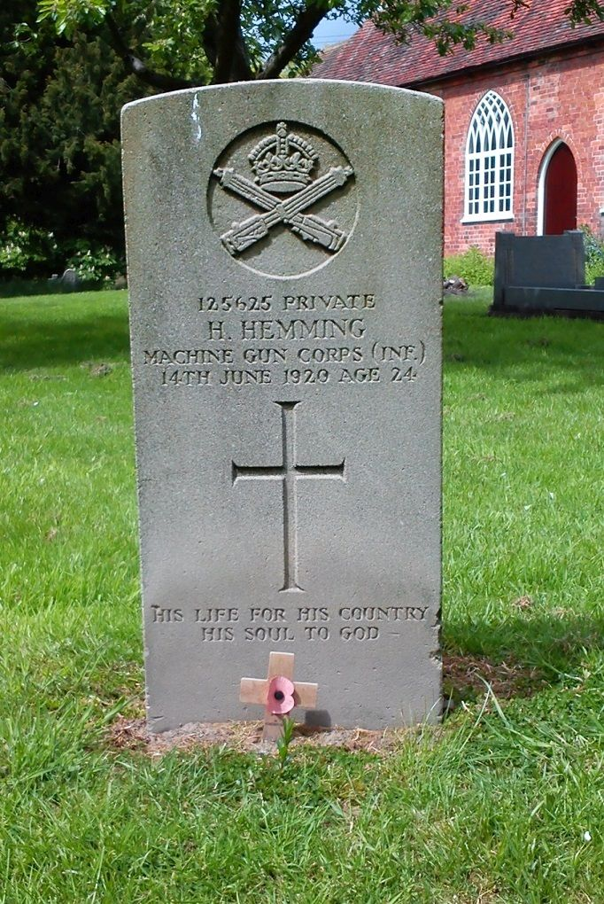 Commonwealth War Graves Commission headstone of Pte H Hemming, Machine Gun Corps, in St Cassian's parish churchyard, Chaddesley Corbett, Worcestershire, England